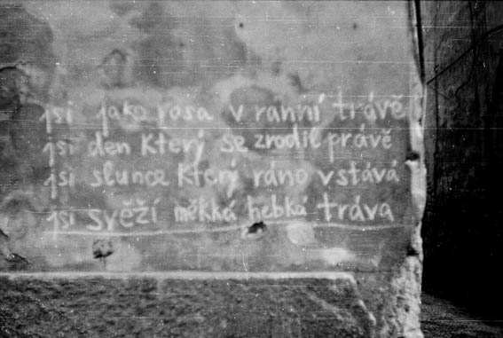 Wailing Wall in Prague in 1977